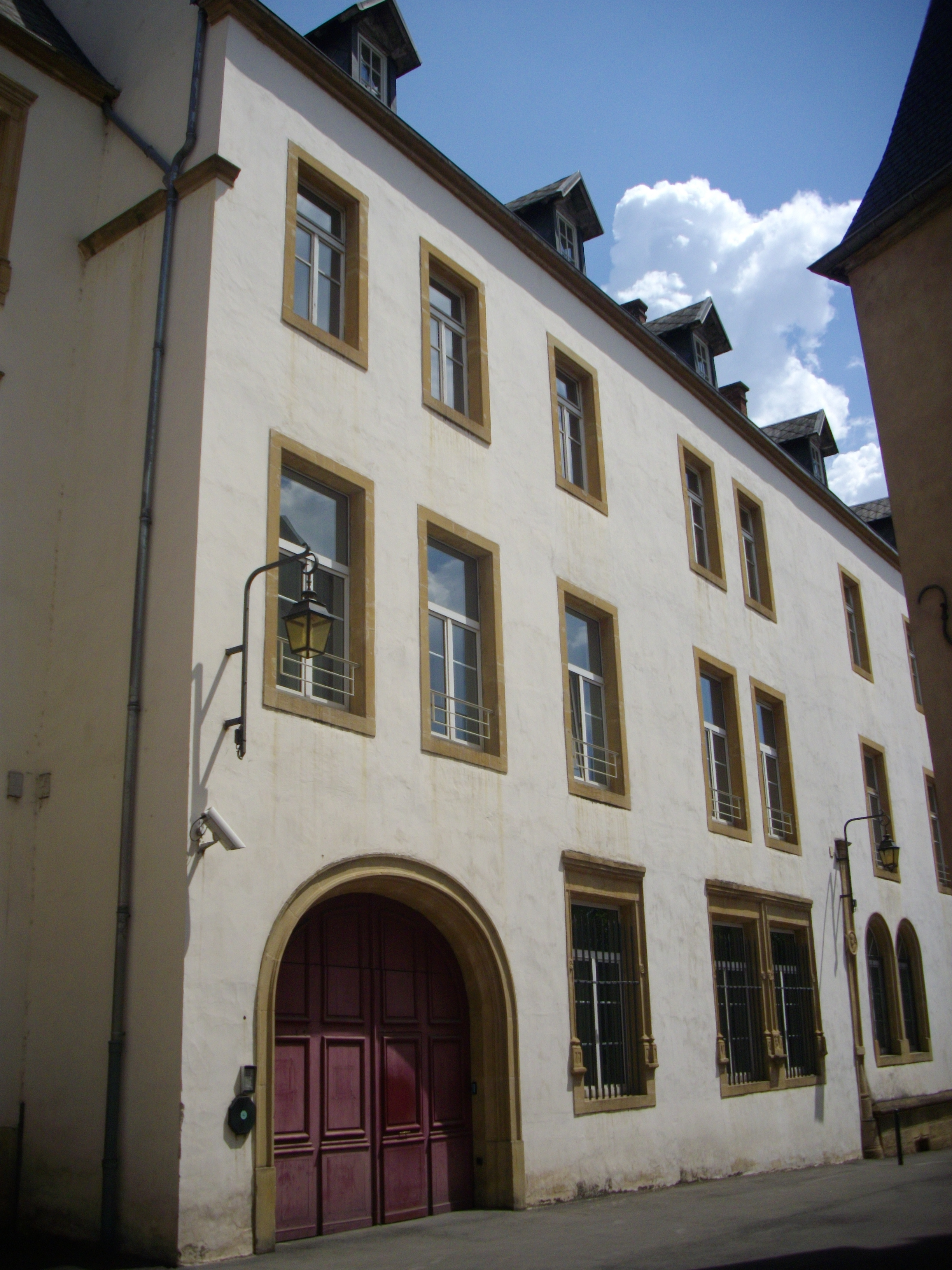 Eltz hotel (current courthouse) in Thionville (Moselle, France) .